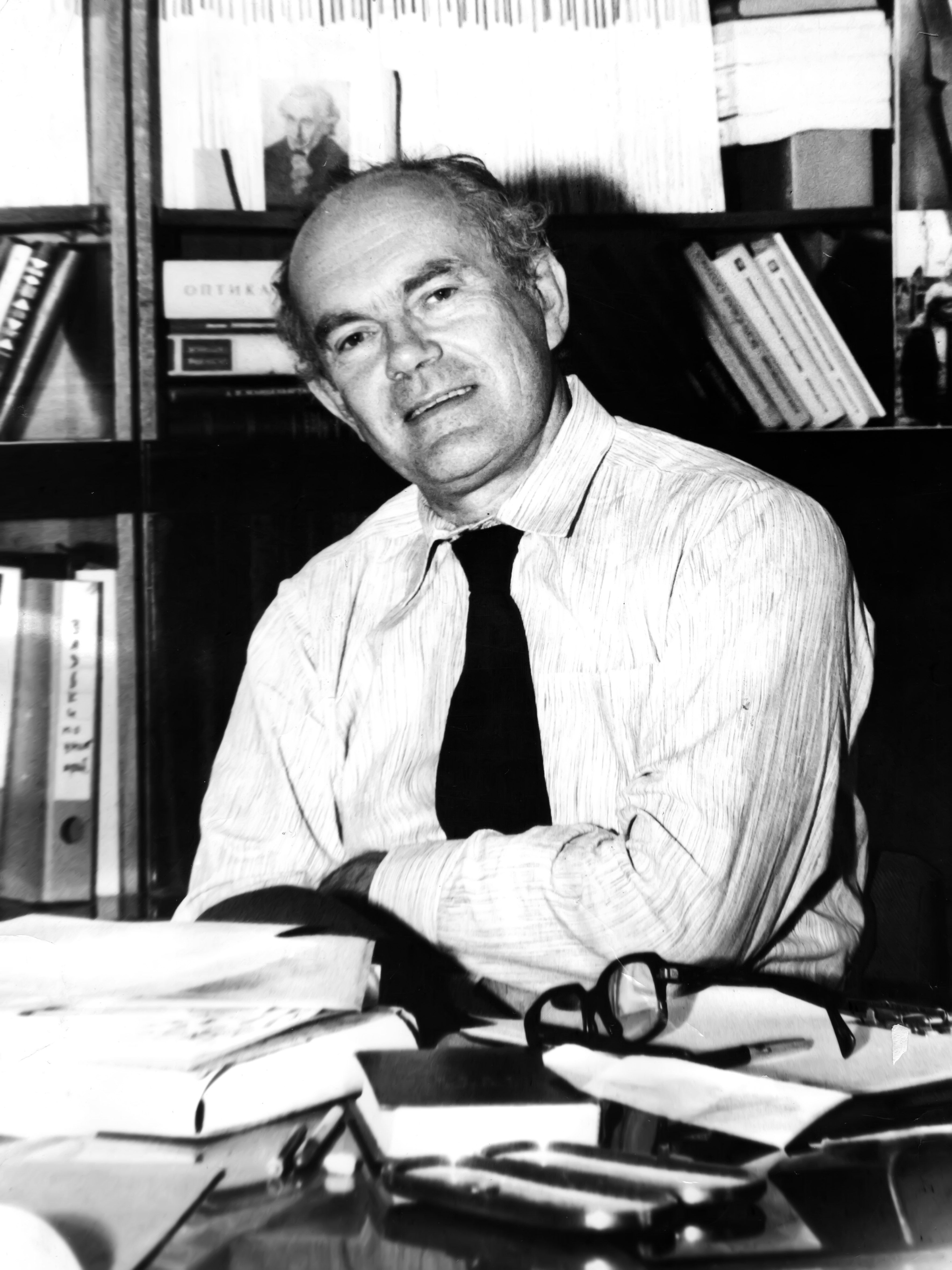 Karlov Nickolaj Vasiljevich